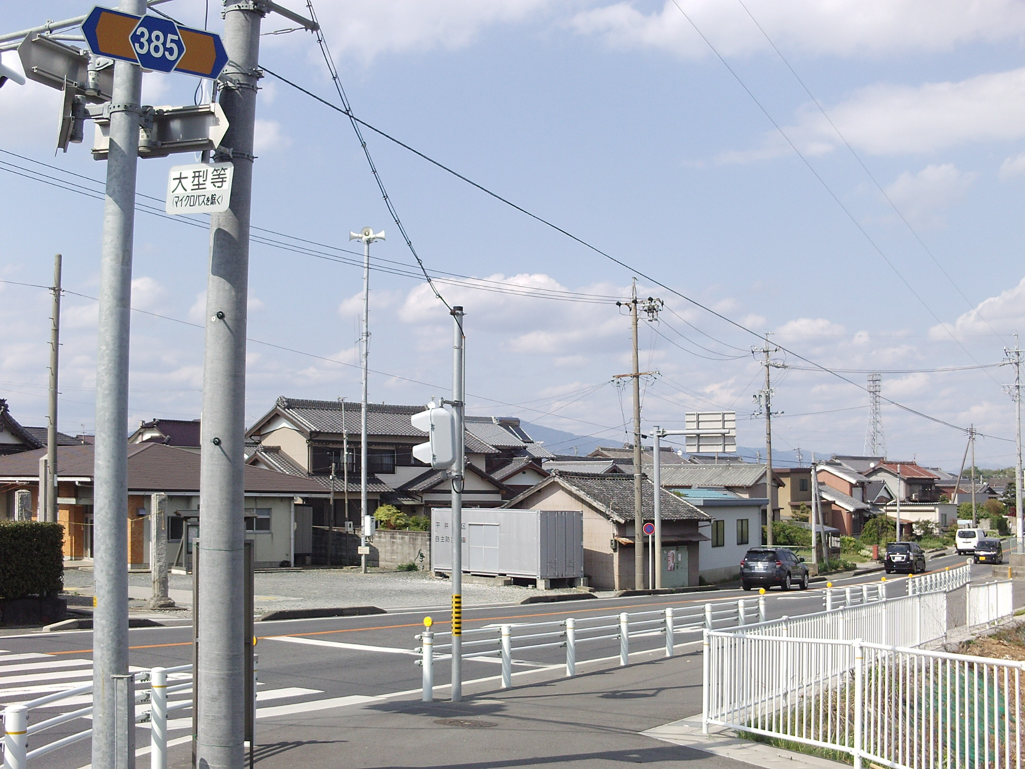 Aichi prefectural road No.385 in Hiraicho, Toyokawa, Aichi.